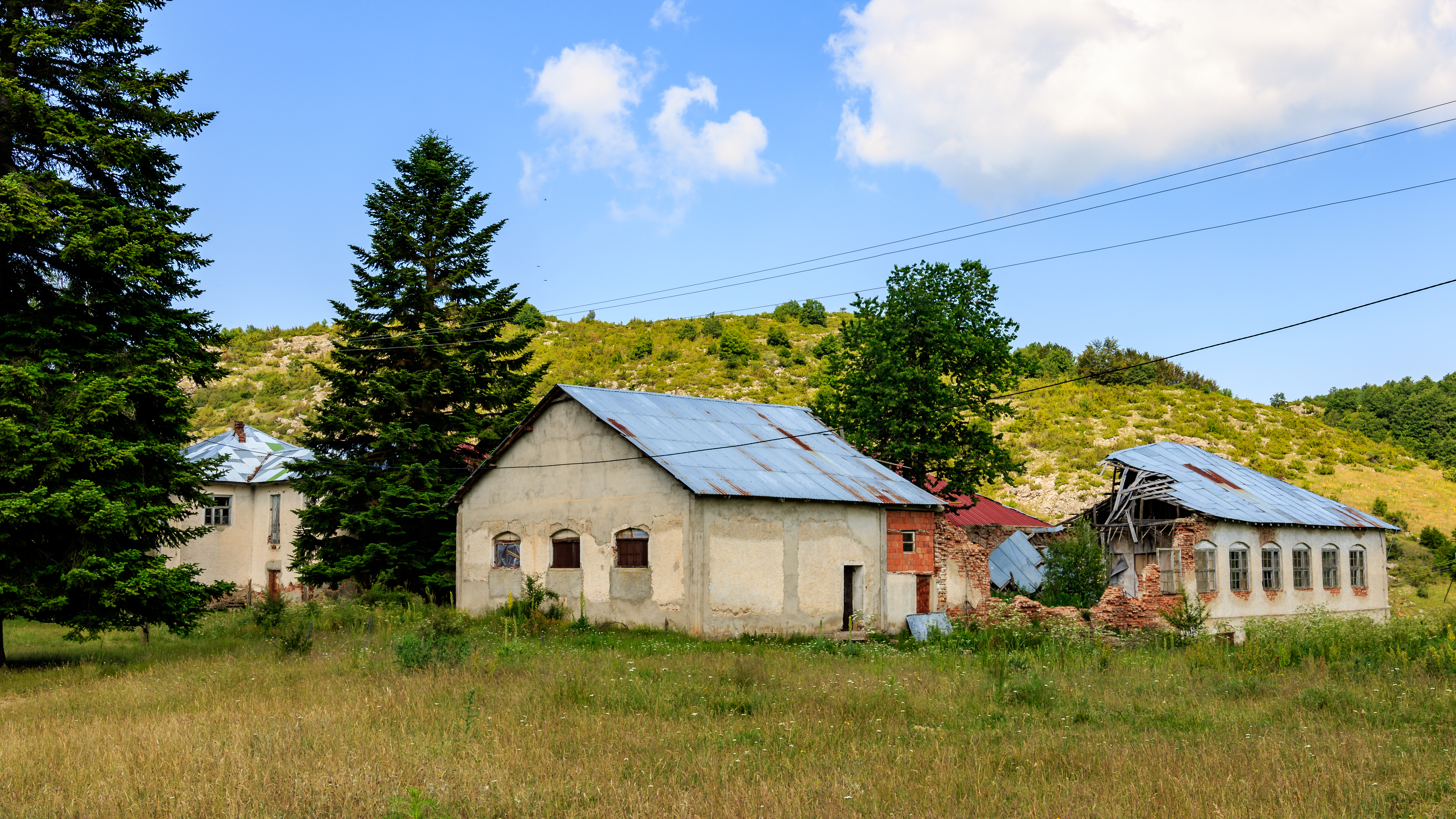 Ruins outside of the village Lazaropole